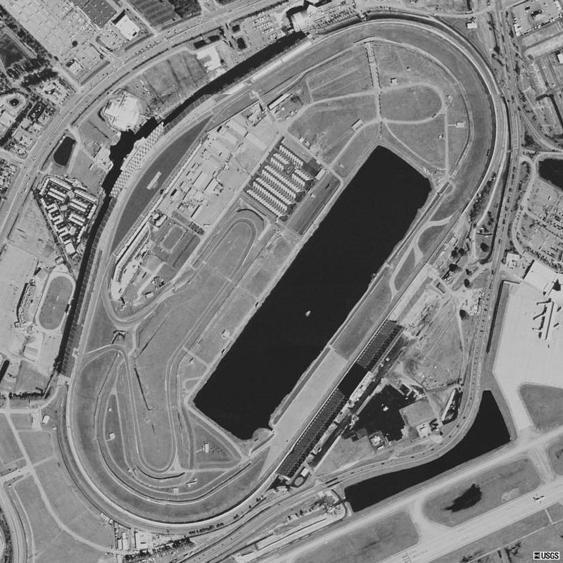 USGS orthophoto of Daytona International Speedway, Daytona Beach, Florida, United States.